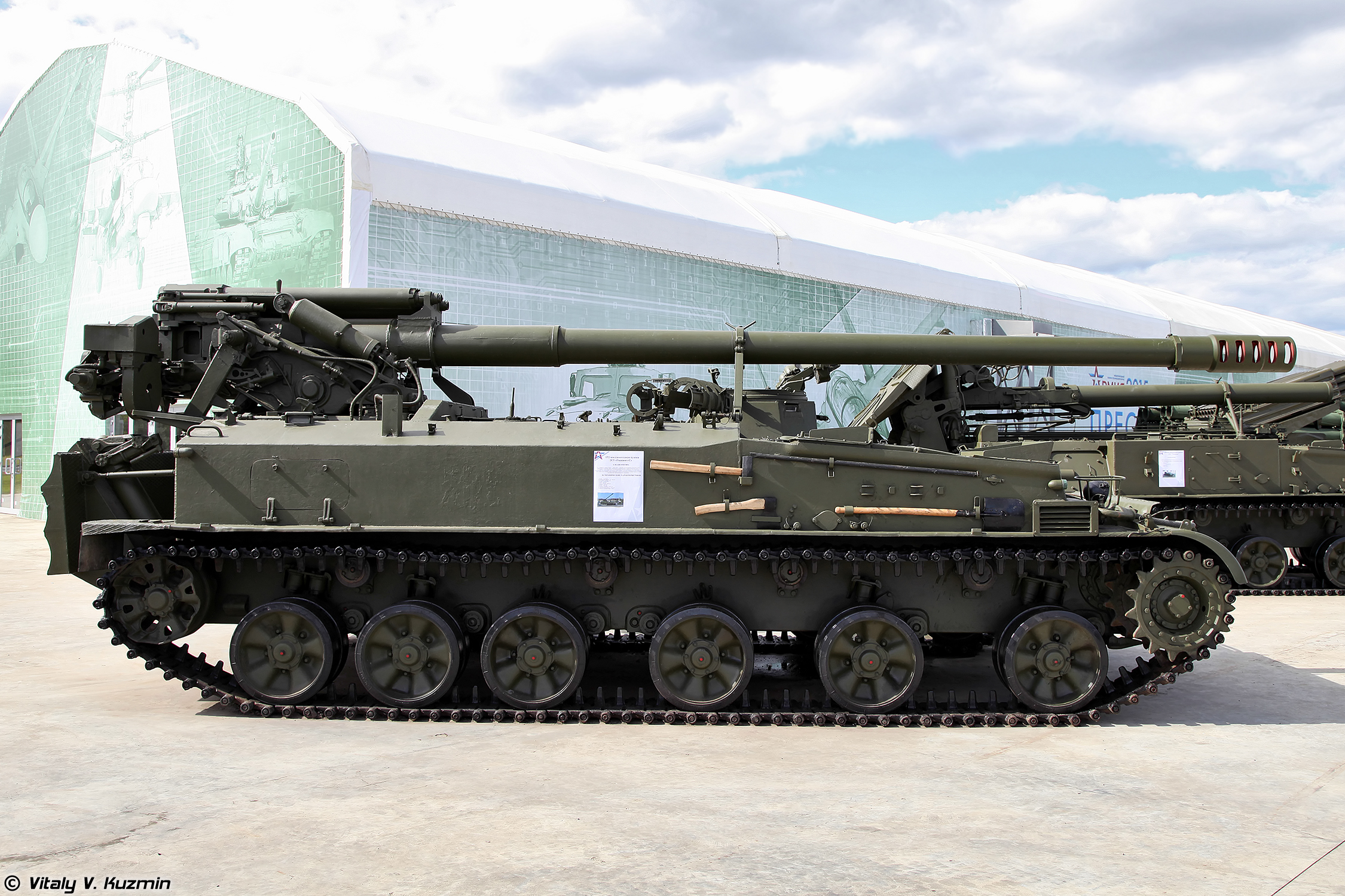 152mm self-propelled gun 2S5 Giatsint-S